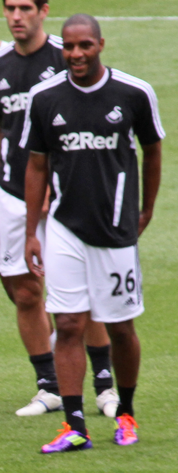 Stephen Dobbie of Swansea City.